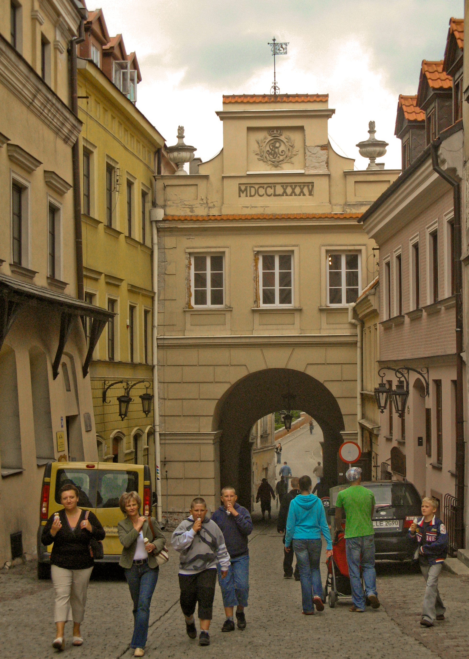 The Grodzka Gate in Lublin before the renovation in 2008.